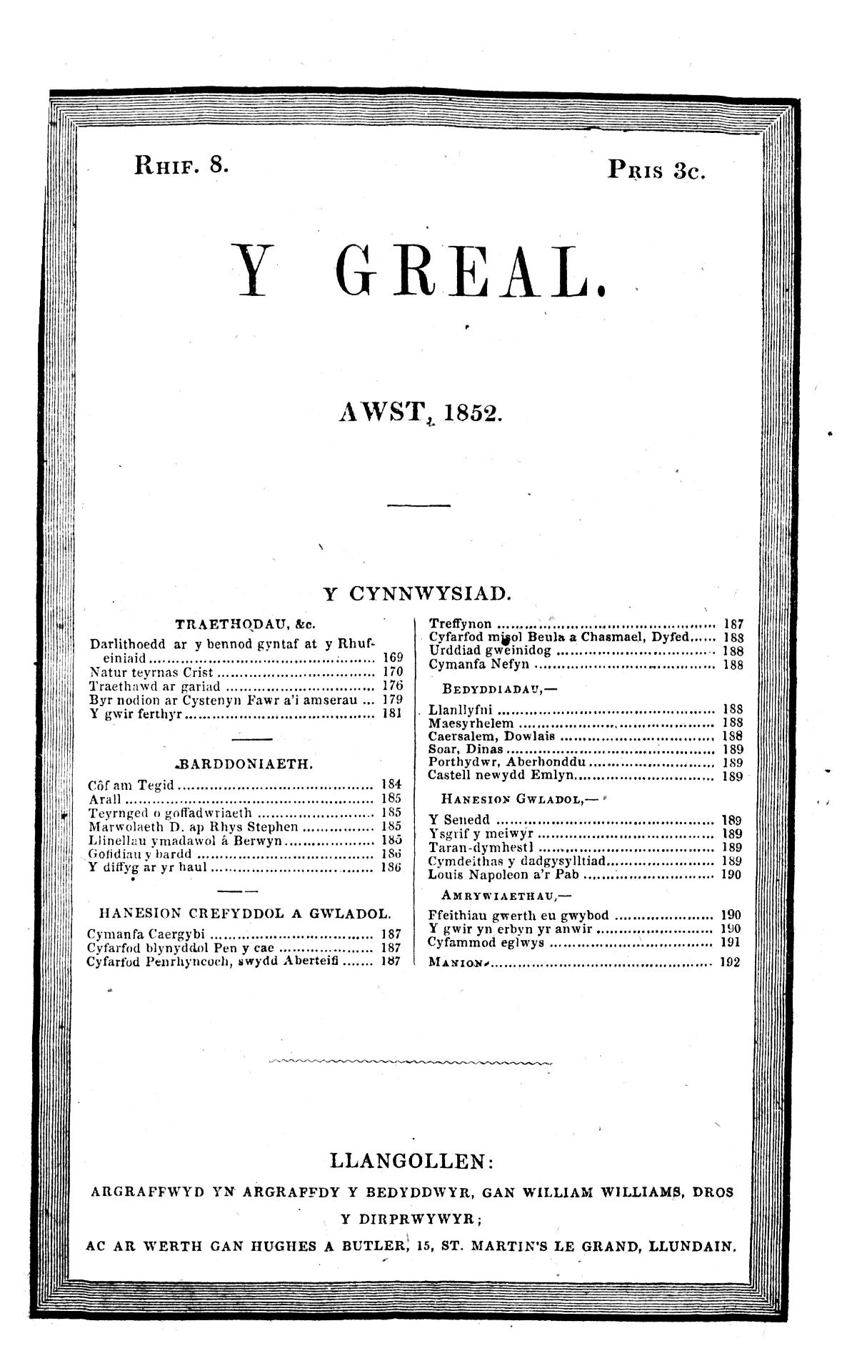 A monthly Welsh language religious periodical serving the Baptist denomination. The periodical's main contents were religious news and articles, alongside domestic and foreign news and poetry. Amongst the periodical's editors were Robert Ellis (Cynddelw, 1812-1875), John Jones (Mathetes, 1821-1878), Abel Jones Parry (1833-1911) and Owen Davies (1840-1929). Associated titles: Y Tyst Apostolaidd (1846-1851).